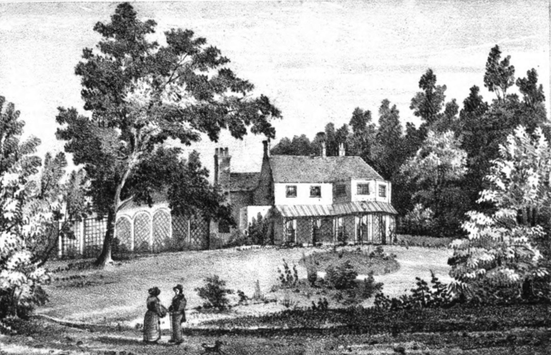 An illustration of the St Anne’s Hill mansion engraved by P. Stirling as the frontispiece for Peter Cunningham’s poem “St Anne’s Hill” (1800)